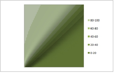 result with grid size 64X64